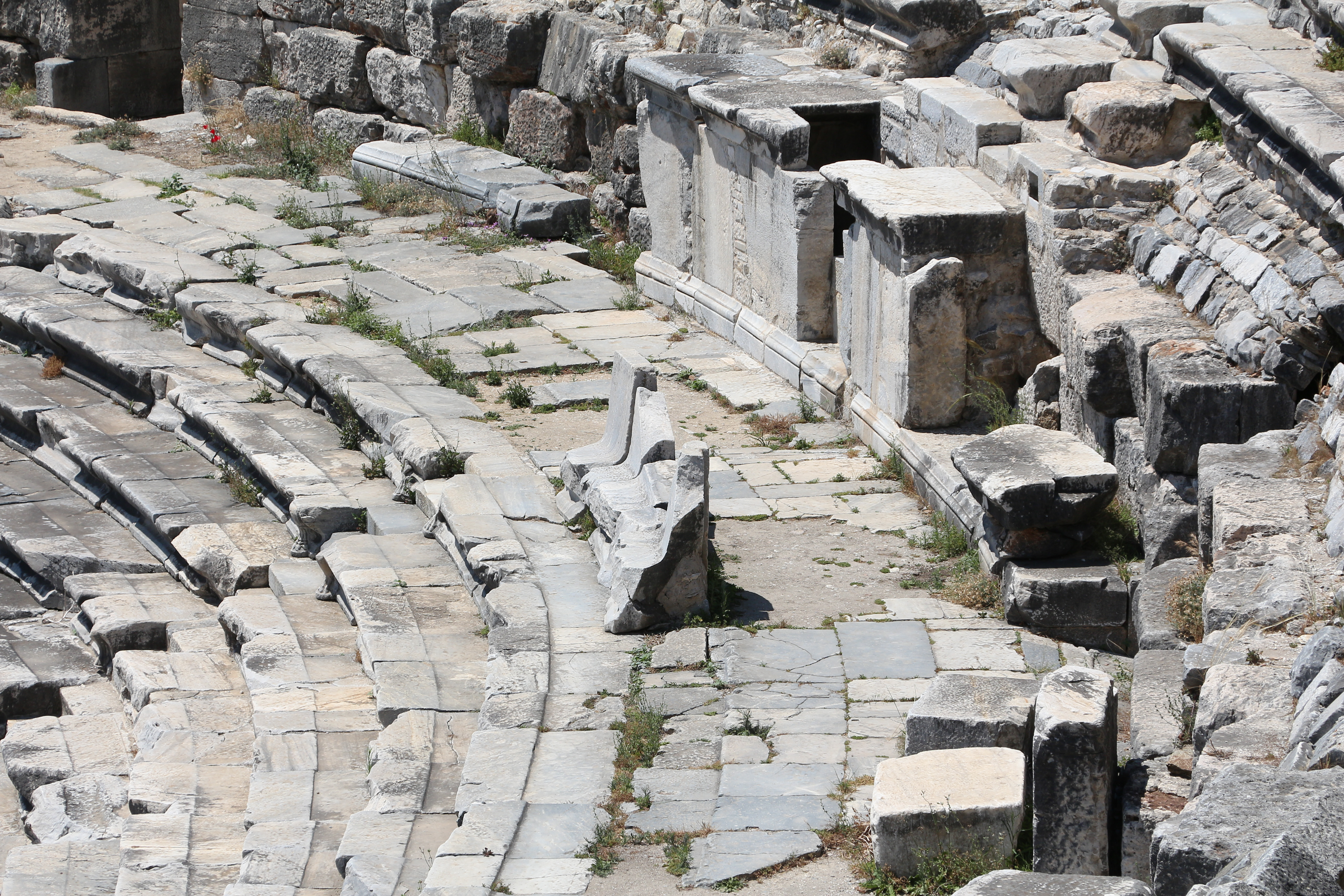 Seats in the Ancient Greek theatre in Miletus, Turkey